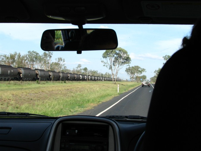 A coal train runs alongside the Peak Downs Highway, between Coppabella and Nebo.